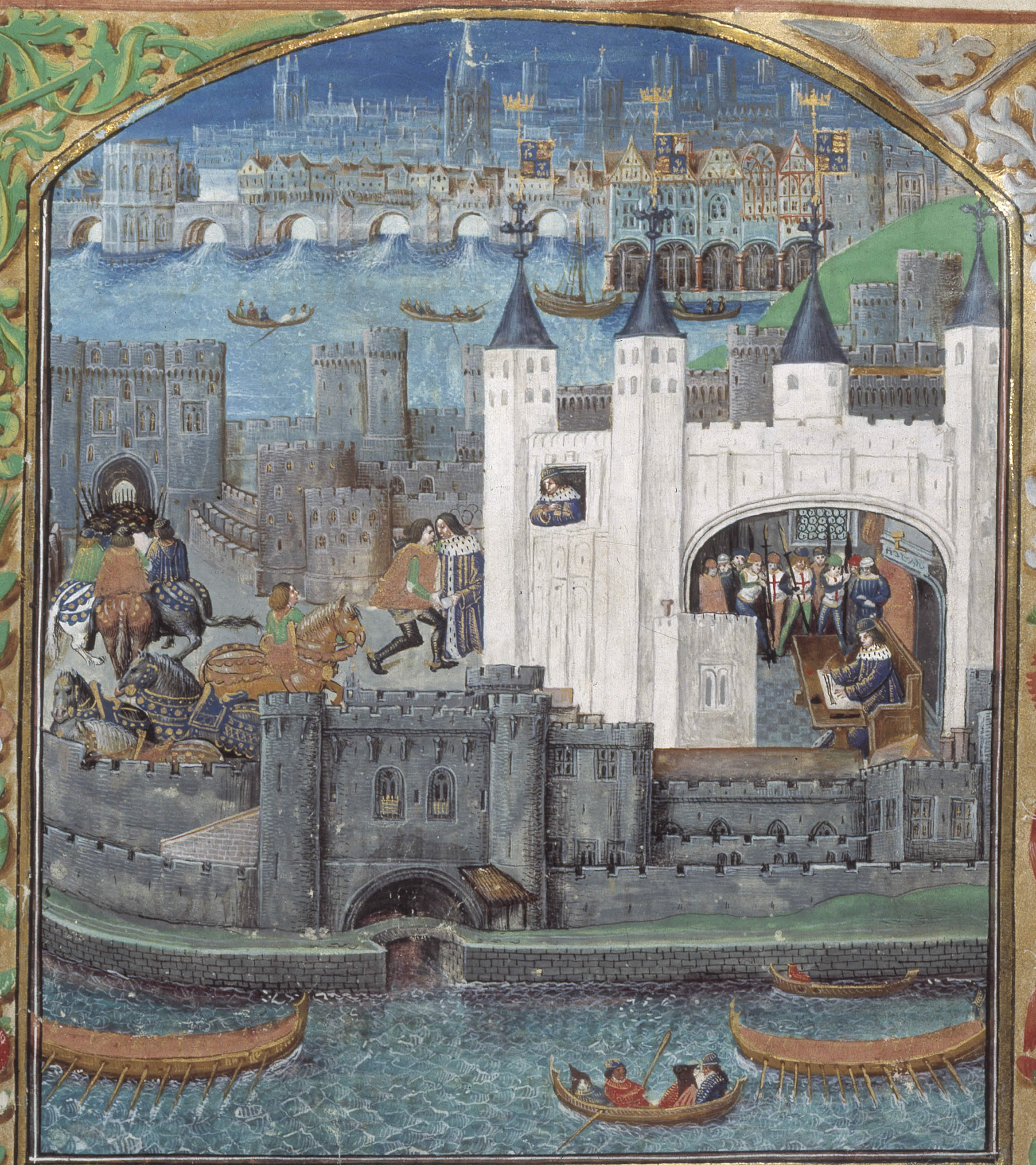 A depiction of the imprisonment of Charles, Duke of Orléans, in the Tower of London from a 15th-century manuscript. The White Tower is visible, St Thomas' Tower (also known as Traitor's Gate) is in front of it, and in the foreground is the River Thames.